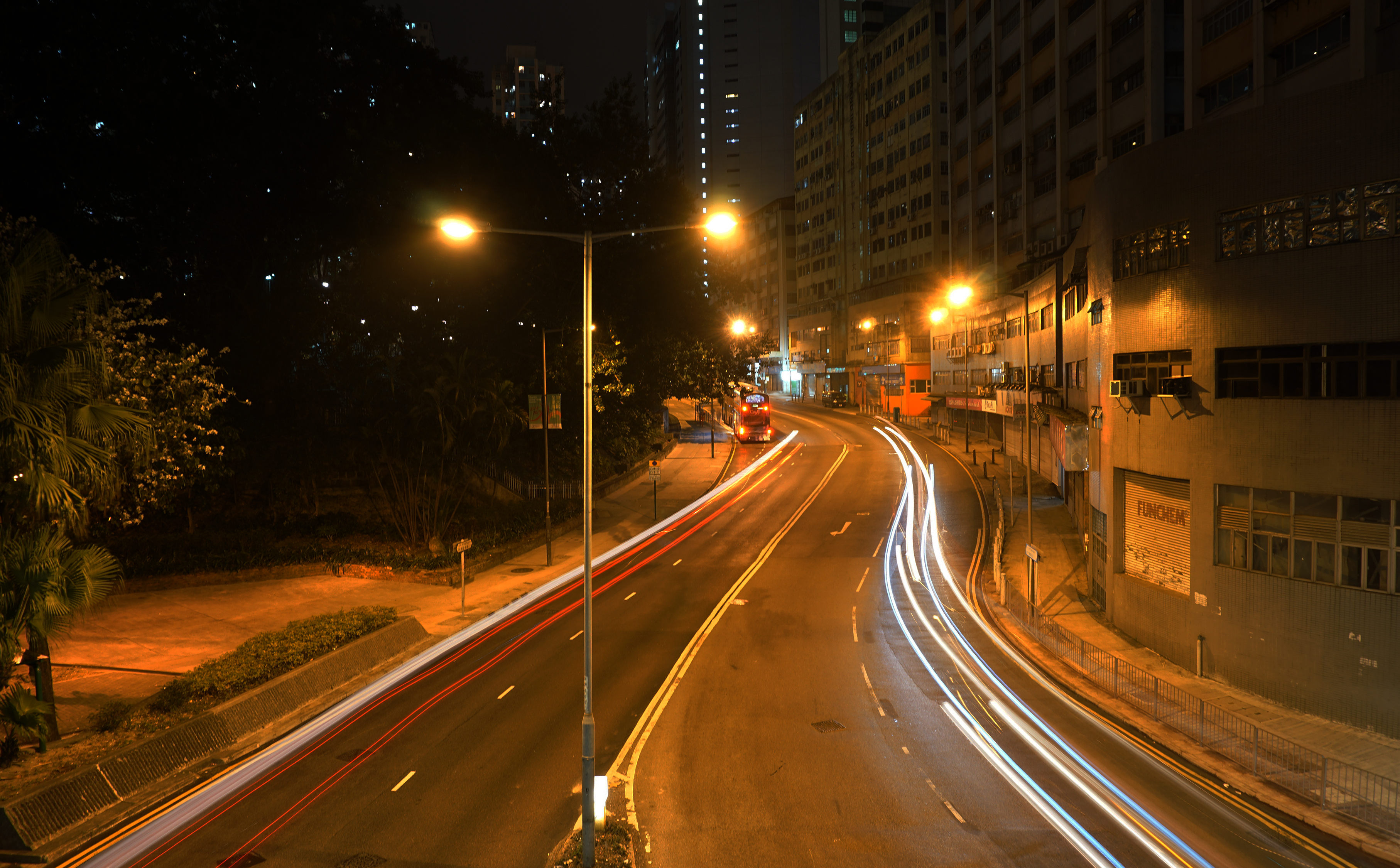 Wo Yi Hop Road in Shek Yam, Hong Kong.